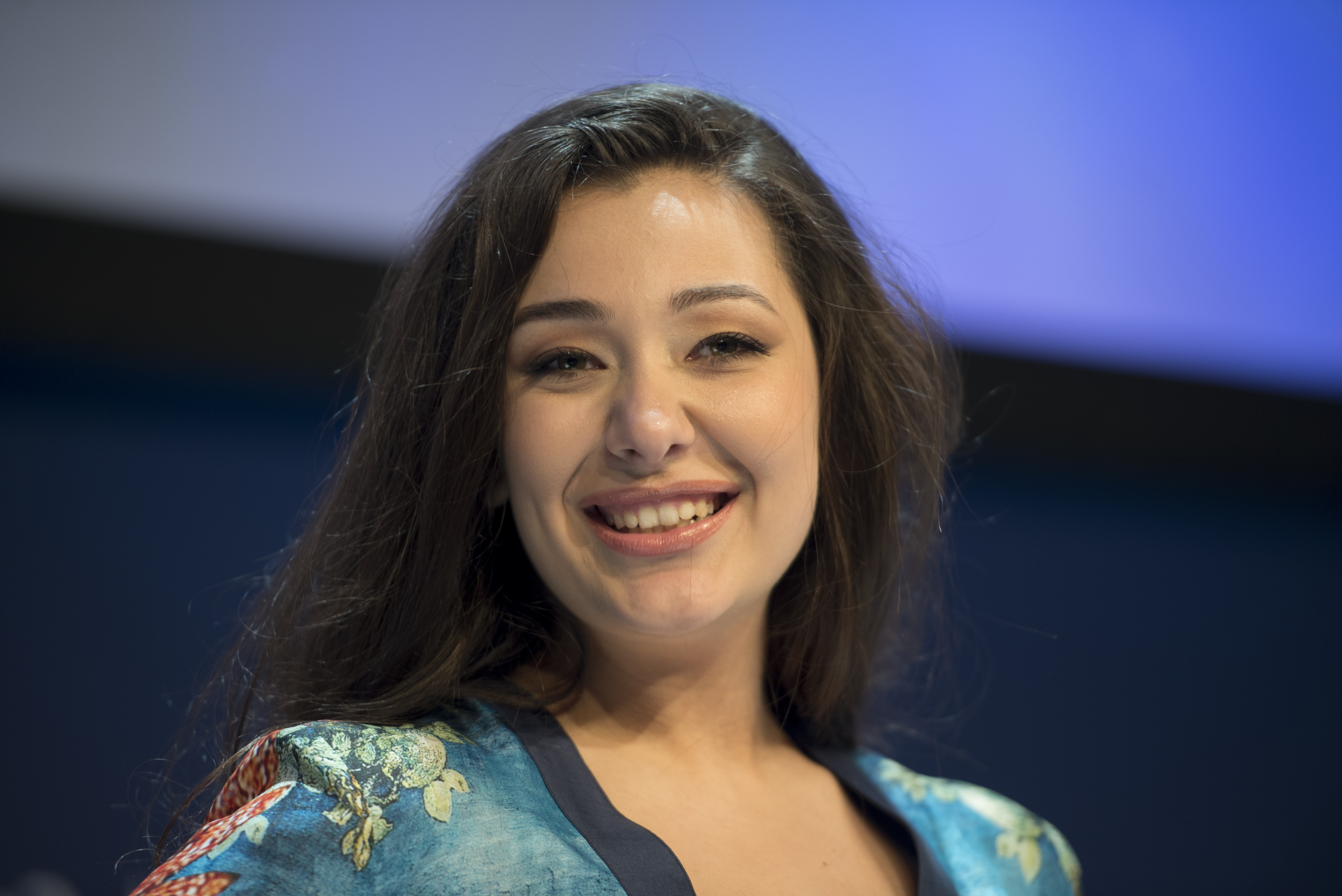 Sanja Vučić ZAA at a Meet & Greet during the Eurovision Song Contest 2016 in Stockholm. (Help translate this text)